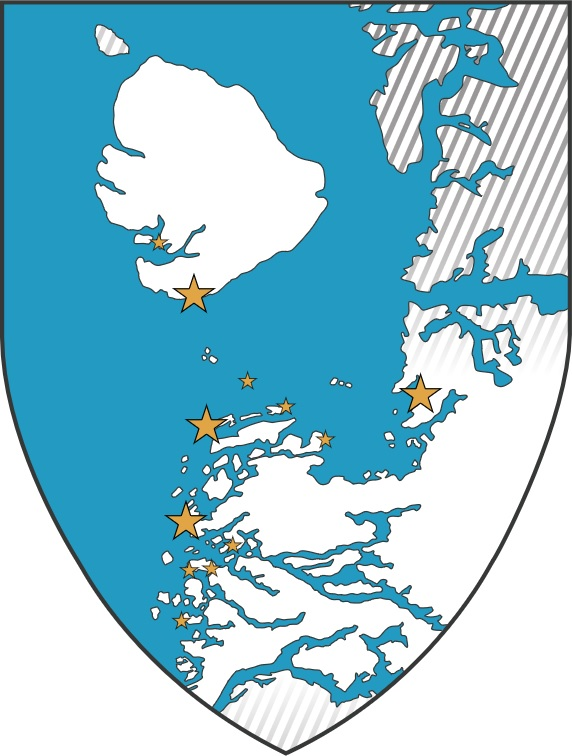 Qeqertalik coat of arms